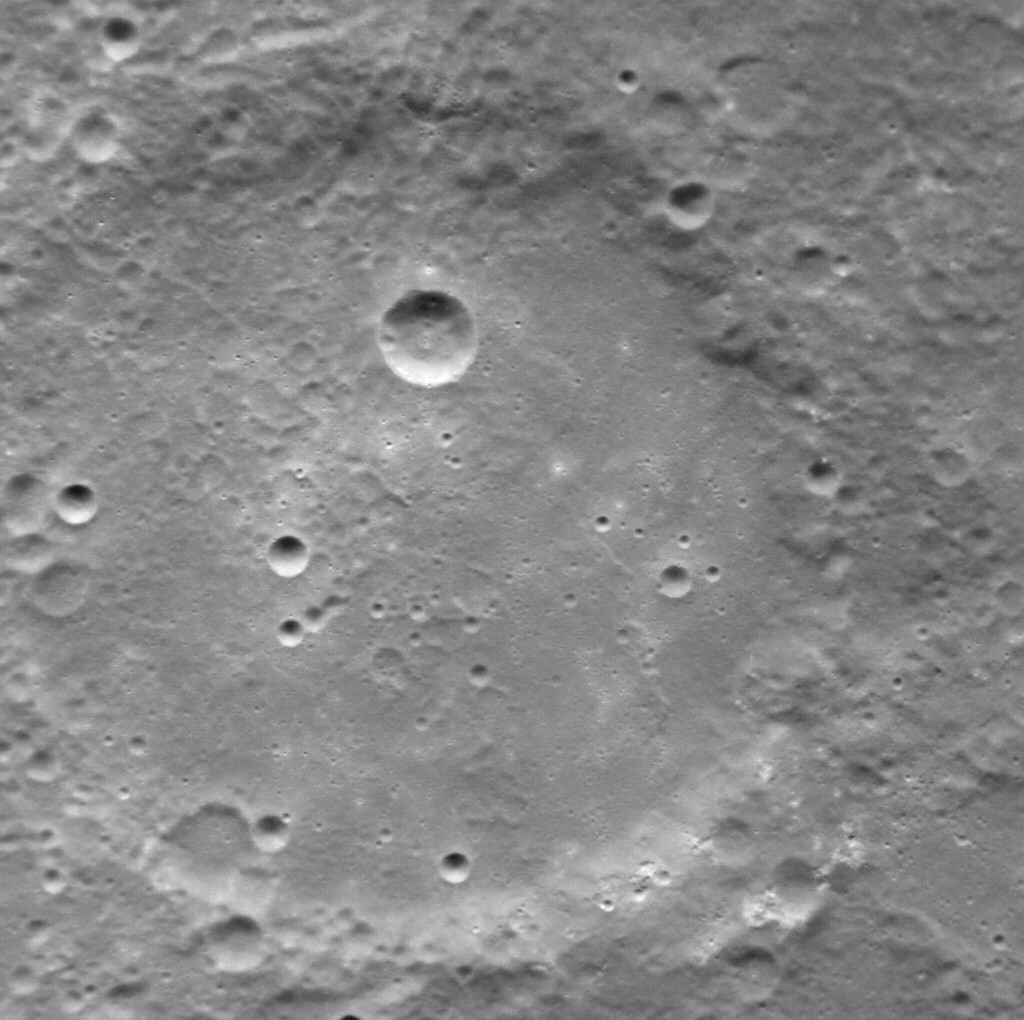 Africanus Horton crater on Mercury. MESSENGER Narrow Angle Camera image. Emission Angle: 13.7 Incidence Angle: 53.9 Latitude: -51.1 Longitude: 319.4 Phase Angle: 67.6